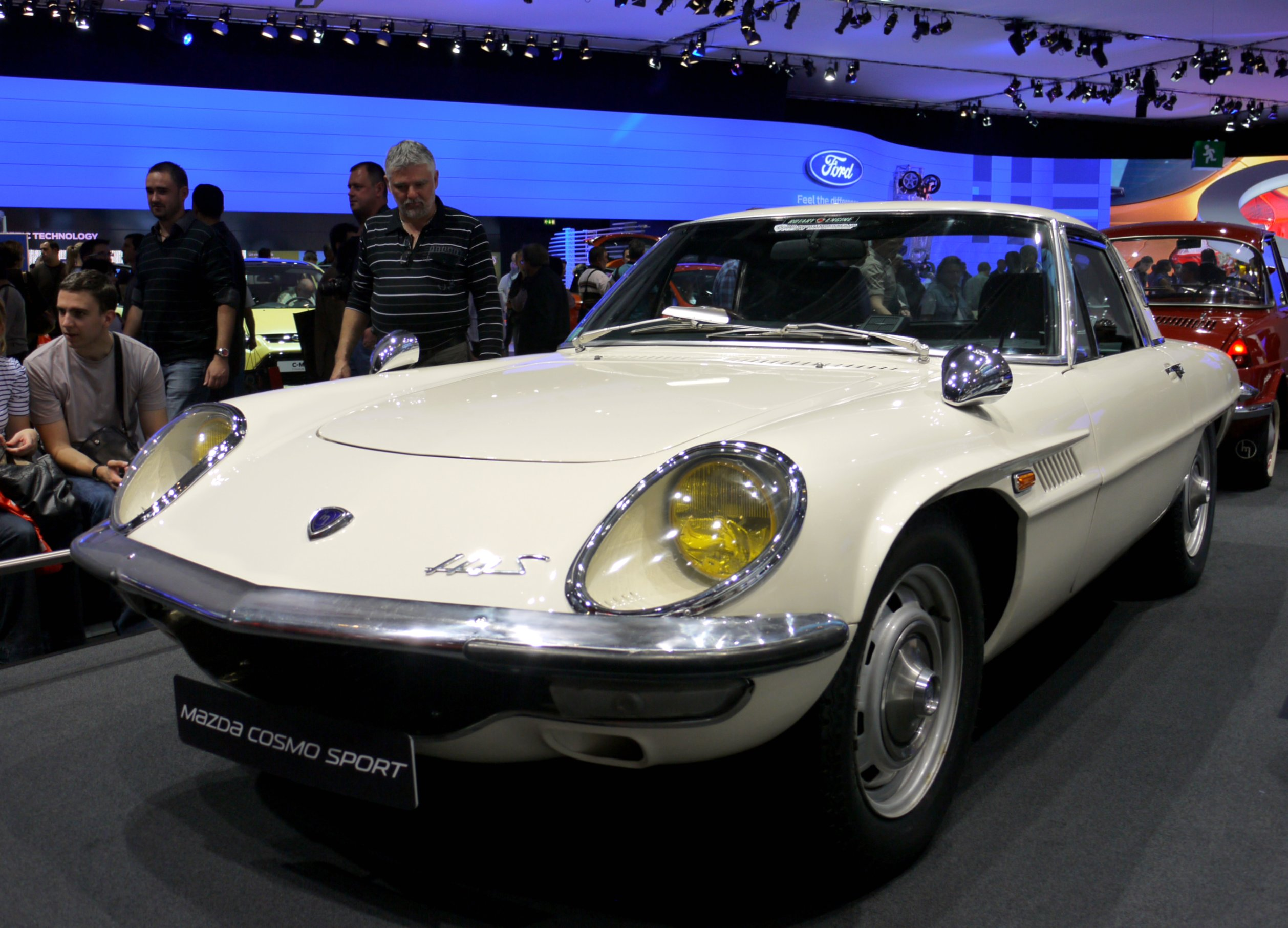 Mazda Cosmo Sport 110S. First 2-rotor rotary engine powered series car, produced between May 1967 and 1972. Cosmos were built by hand at a rate of only about one per day.